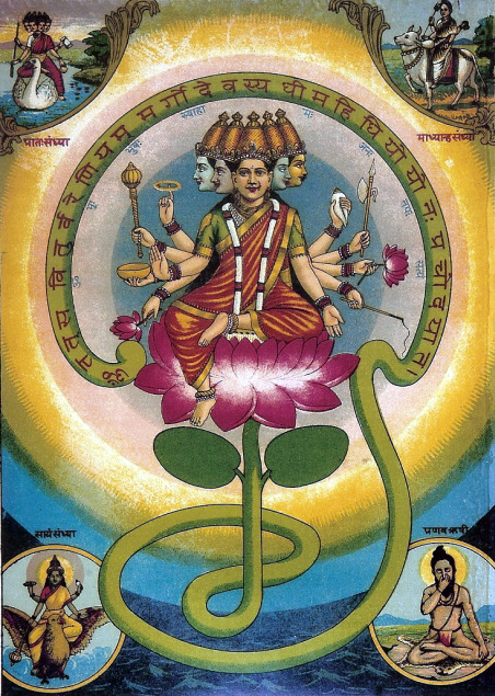 A representation of the Gayatri Mantra